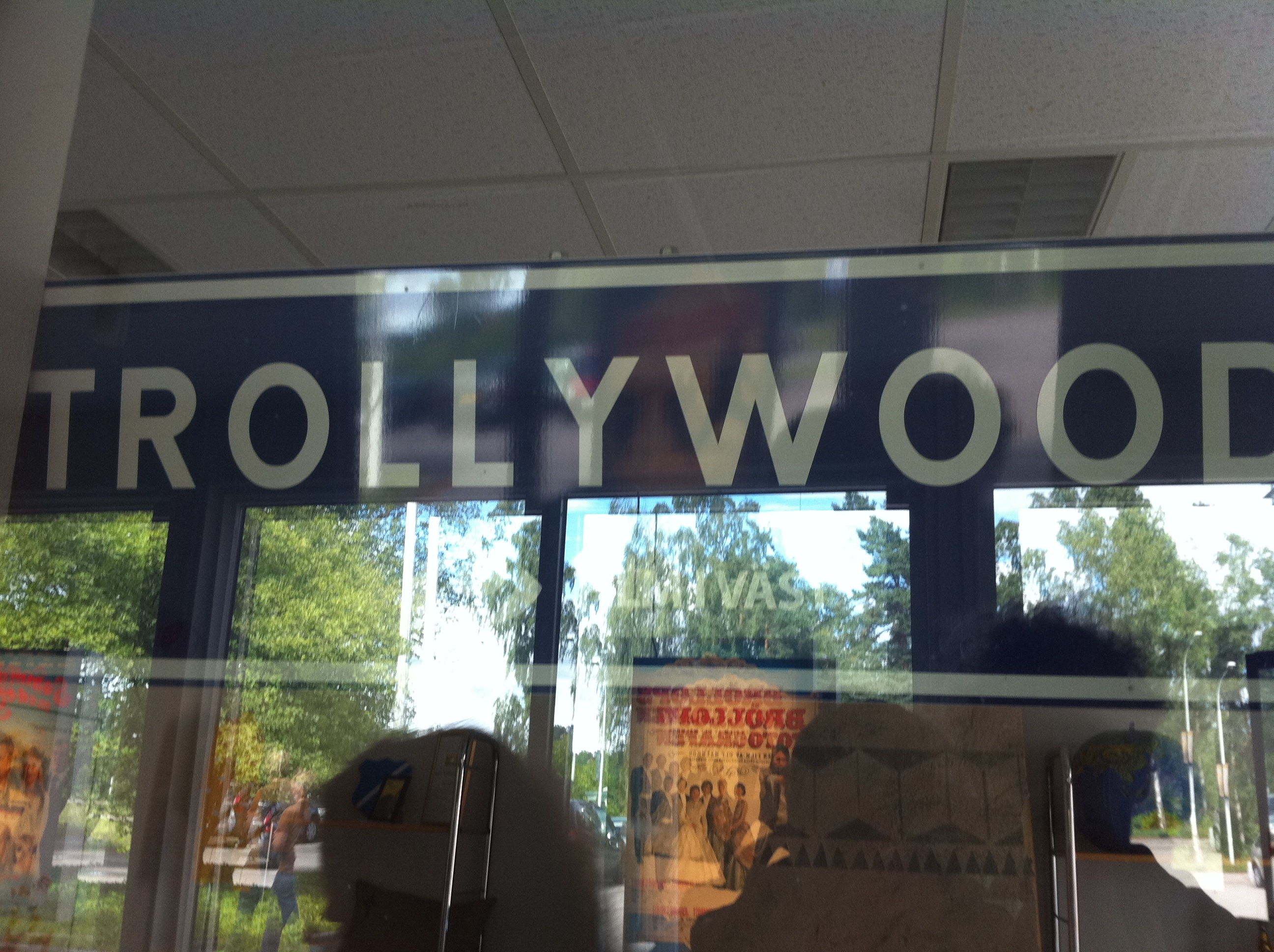 Back Camera